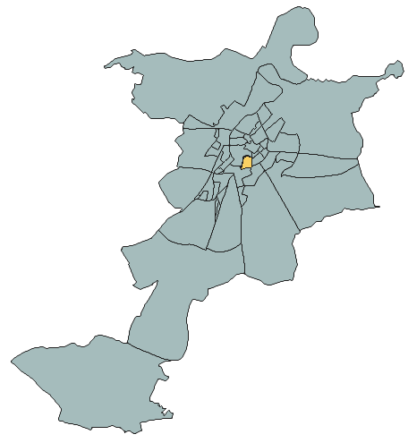 Distrito Caño Argales de Valladolid